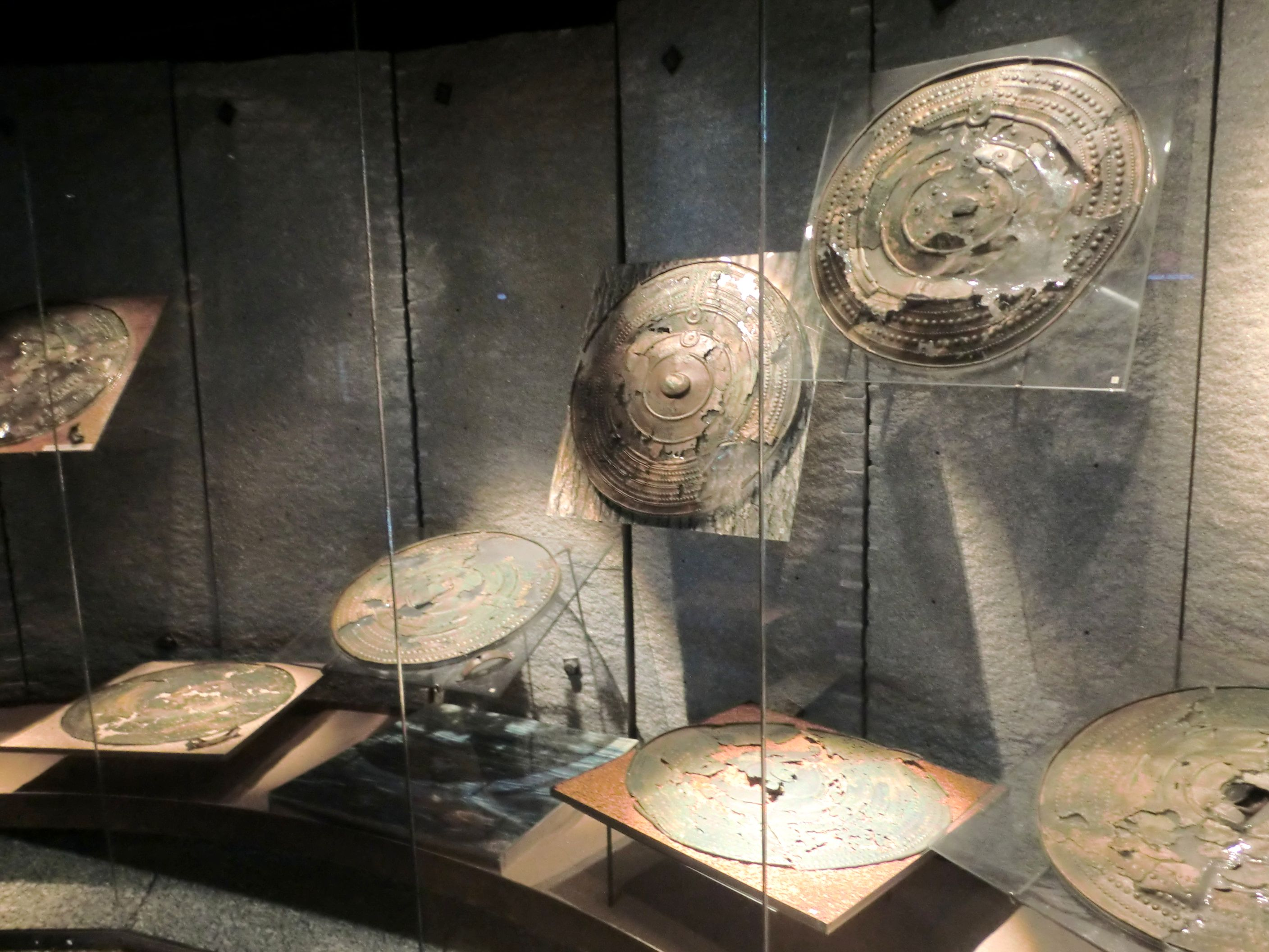 Som of the more than twelve Herzsprung-type bronze votive shields, found together at Fröslunda farm near Lidköping, Västergötland, Sweden. The shields are on display at Västergötlands Museum, Skara.